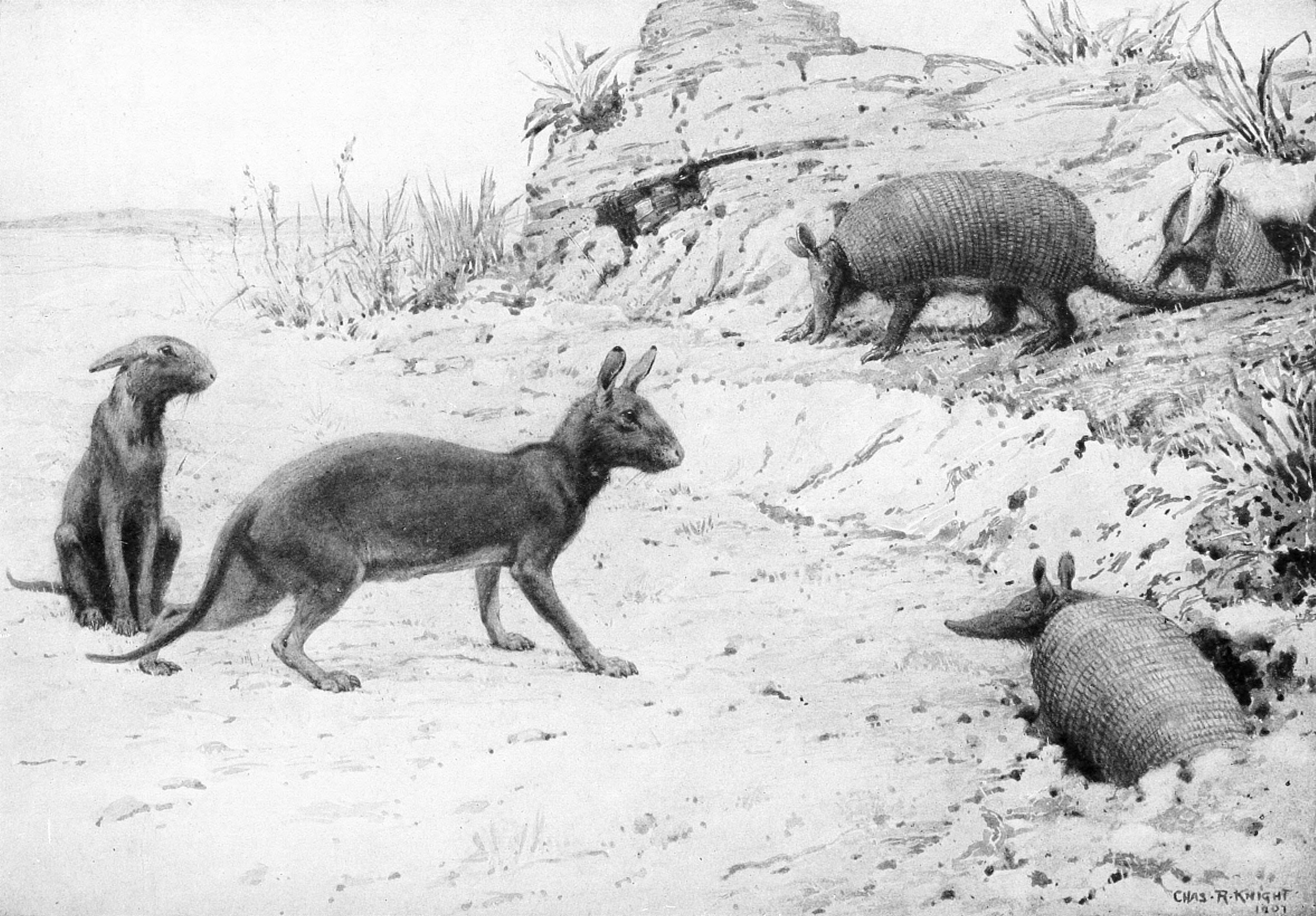 Life restoration of Protypotherium australe and Stegotherium tesselatum from W.B. Scott's "A History of Land Mammals in the Western Hemisphere." New York: The Macmillan Company.